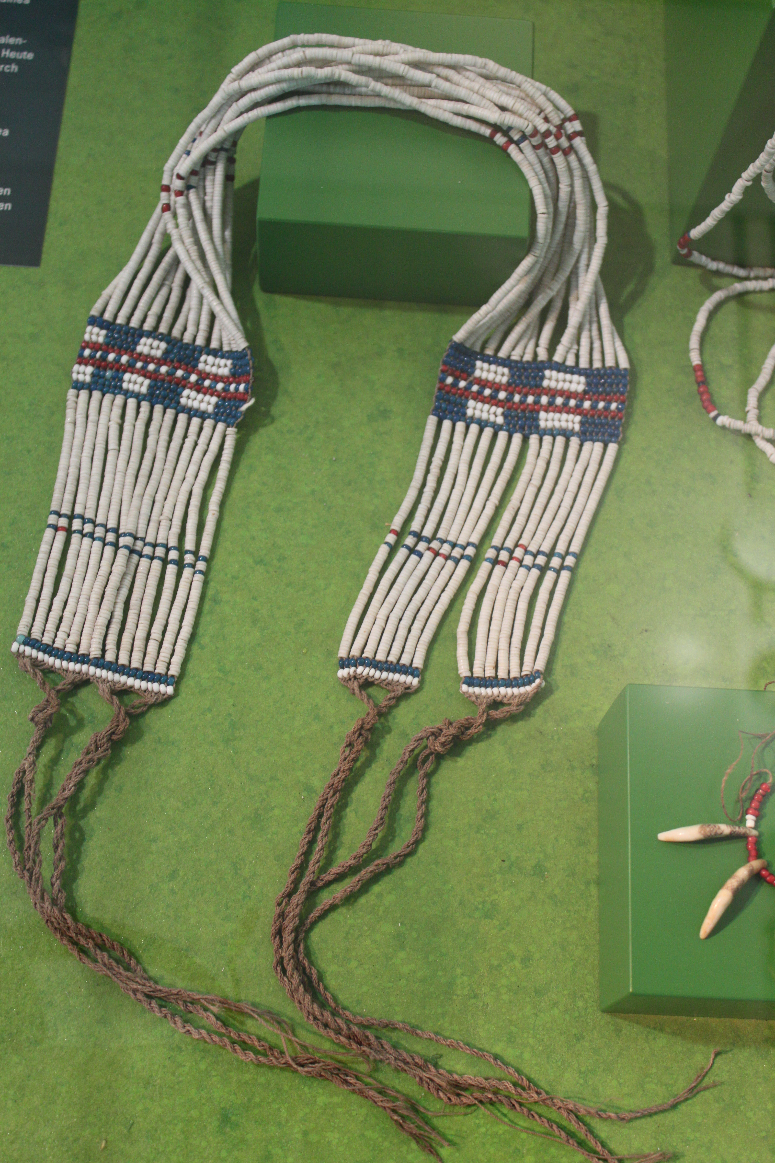 string of snail-shell